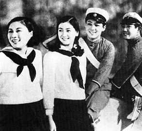 Setsuko Hara in 1935 Japanese movie Tamerahunakare Wakoudoyo(Do not hesitate, the young).